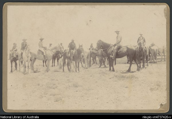 Musterers and manager William Oliffe on horseback at Stuart Creek Station, South Australia, 1897